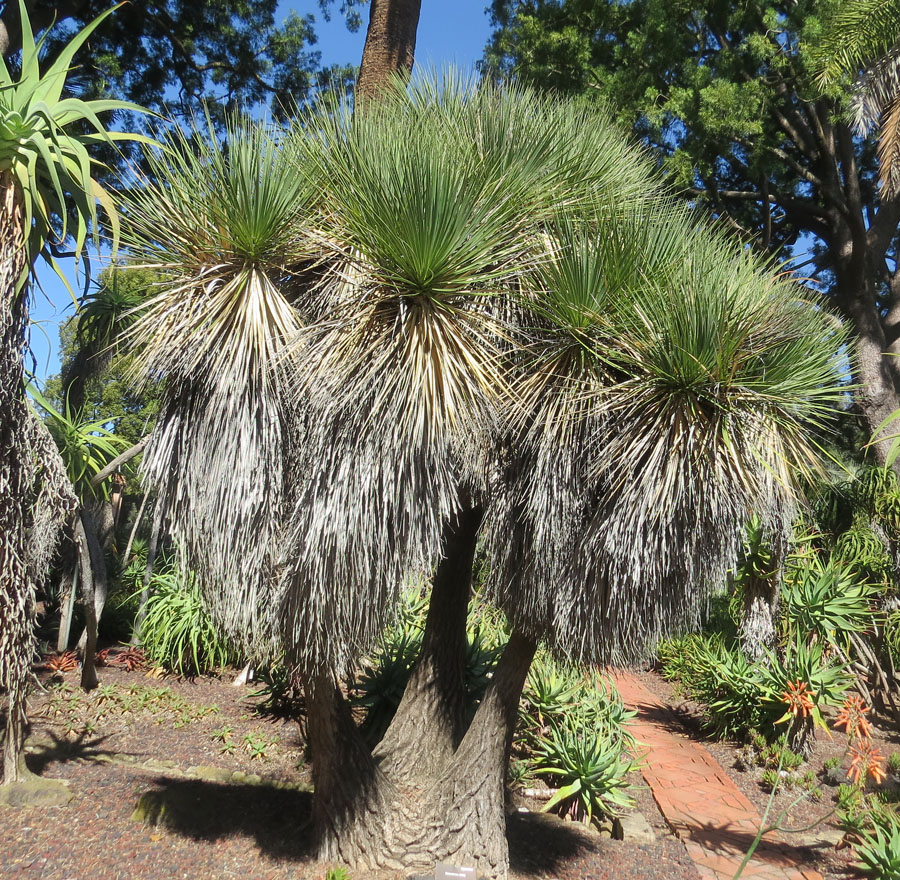 Beaucarnea stricta, an agave from central Mexico known as Bottle Palm